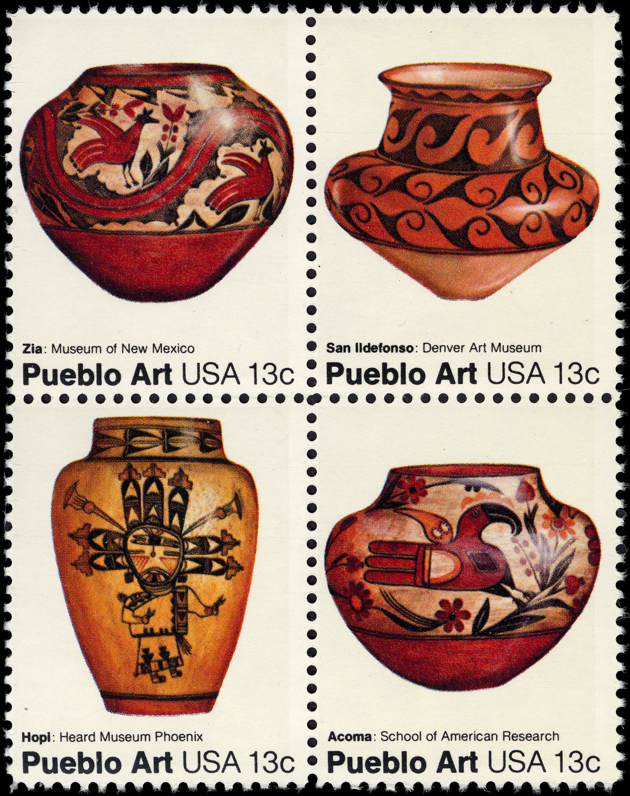 American Folk Art Series: Pueblo Pottery 1977 issue - set of four 13-cent U.S. stamps.